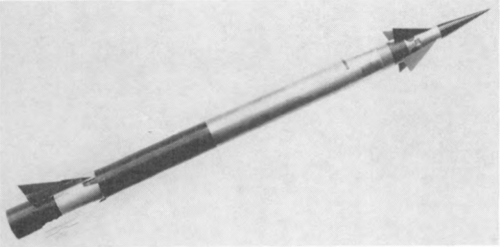 Blowpipe missile with canard-type control surfaces ahead and tail fins, shortly before it was type classified in 1973